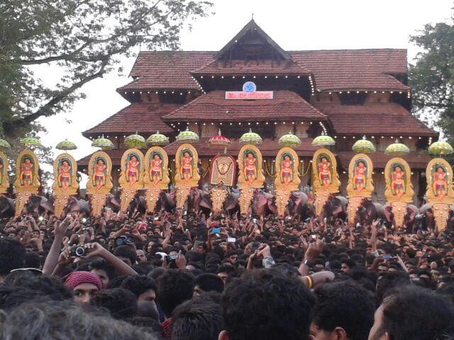 thrissur pooram